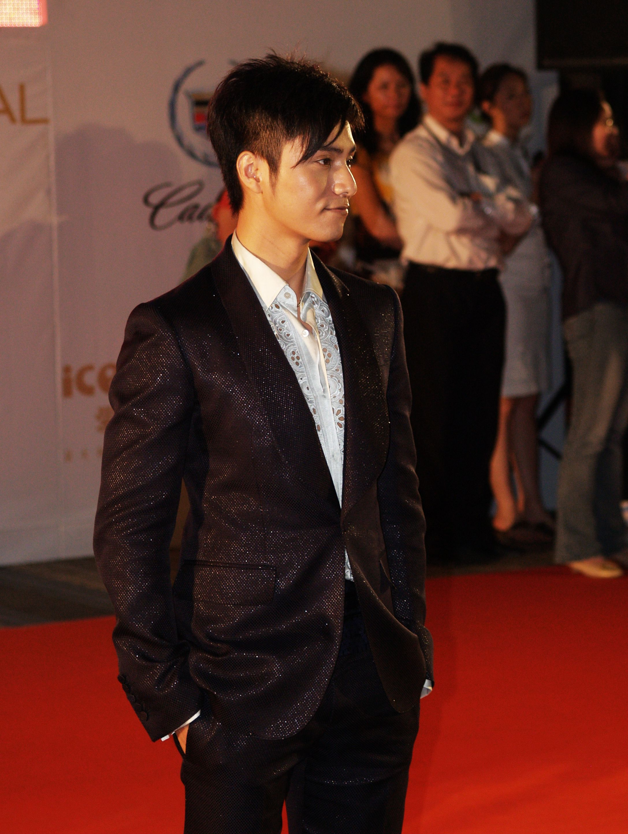 Chen Kun